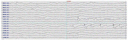 Epilepsy- left hippocampal seizure onset from Neuromodulation of Bilateral Hippocampal Foci, an Alternative for Mesial Temporal Lobe Seizures in Patients with Non-Lesional MRI: Long-Term Follow-up Velasco F, Vázquez-Barrón D, Pérez-Pérez D, Cuéllar-Herrera M, Trejo D, Montes de Oca M and Velasco AL Epilepsy J 2:116.